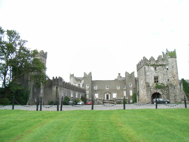 Howth Castle, Ireland. Ancestral home of the Earls of Howth.